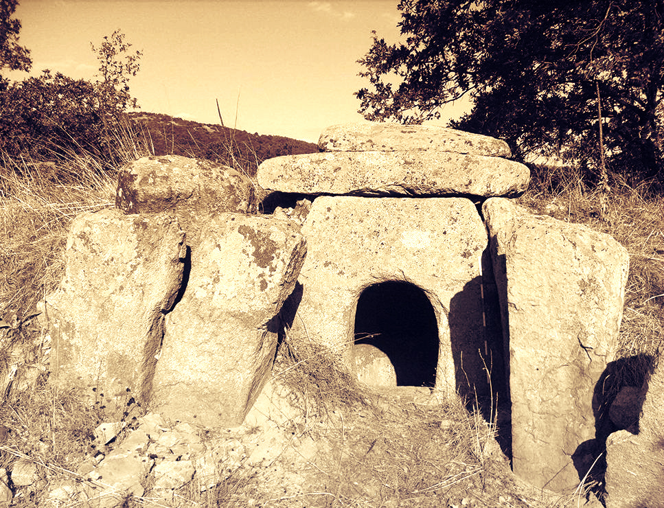 Byalata treva dolmen Hlyabovo BG